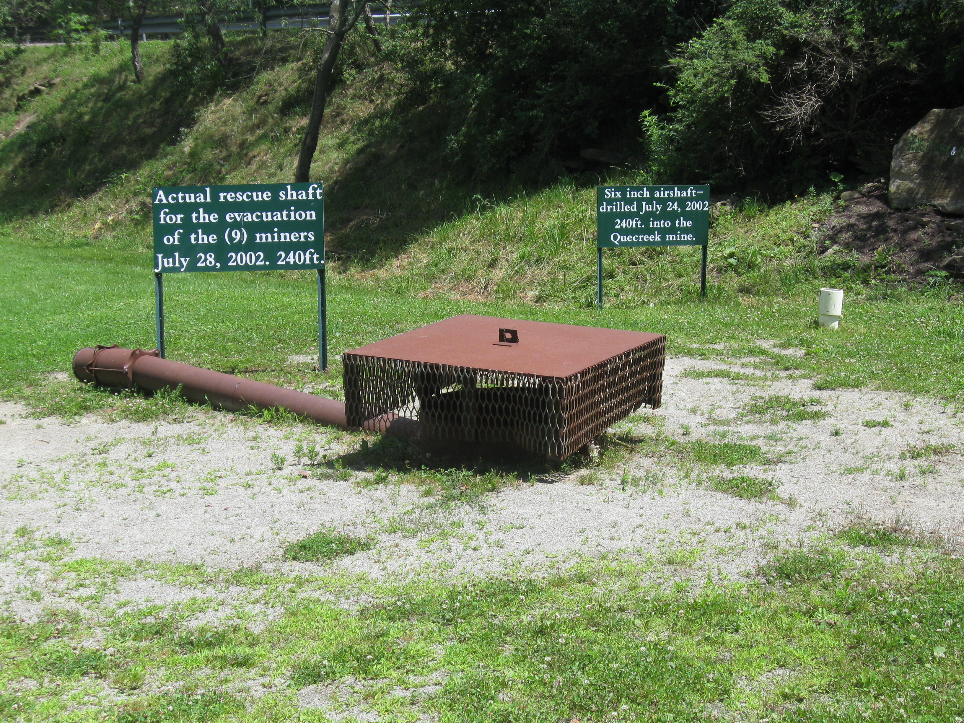 Capped rescue shaft at the Quecreek Mine Rescue site, used to bring all nine trapped miners to the surface successfully in July 2002. The white pipe to the right of the shaft is an air shaft drilled during the immediate response to get air to the miners.